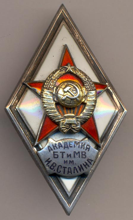 Graduate badge, issued to graduates of the Soviet Union’s Staff College of Armored and Motorized Troops - J. Stalin.